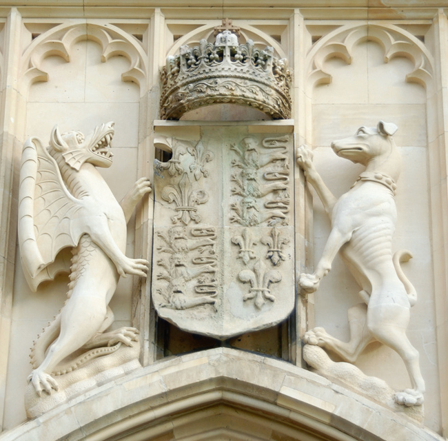 The Royal Arms of England, carved in stone at King's College, Cambridge, England.